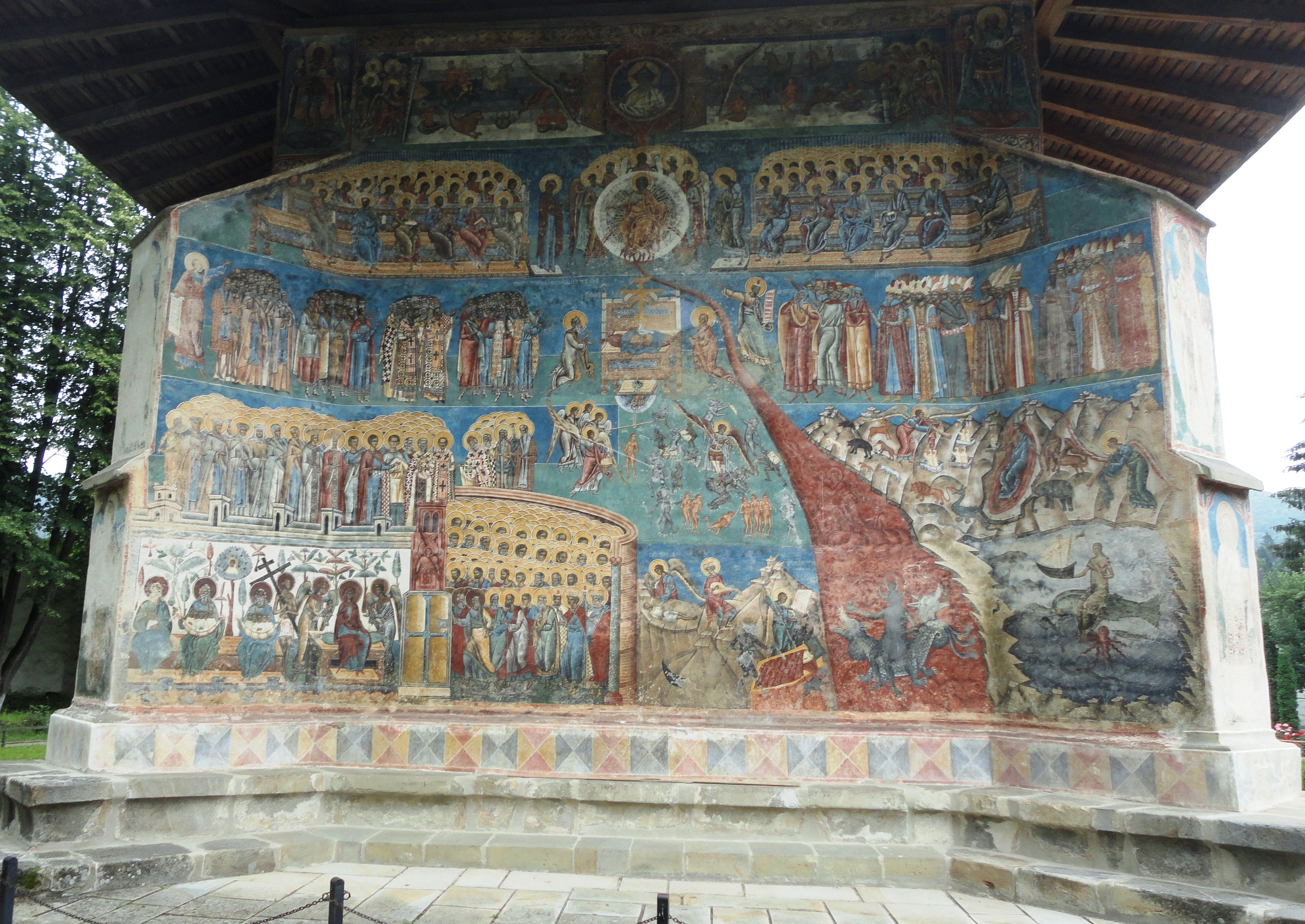 Monastery of Voroneţ, Romania